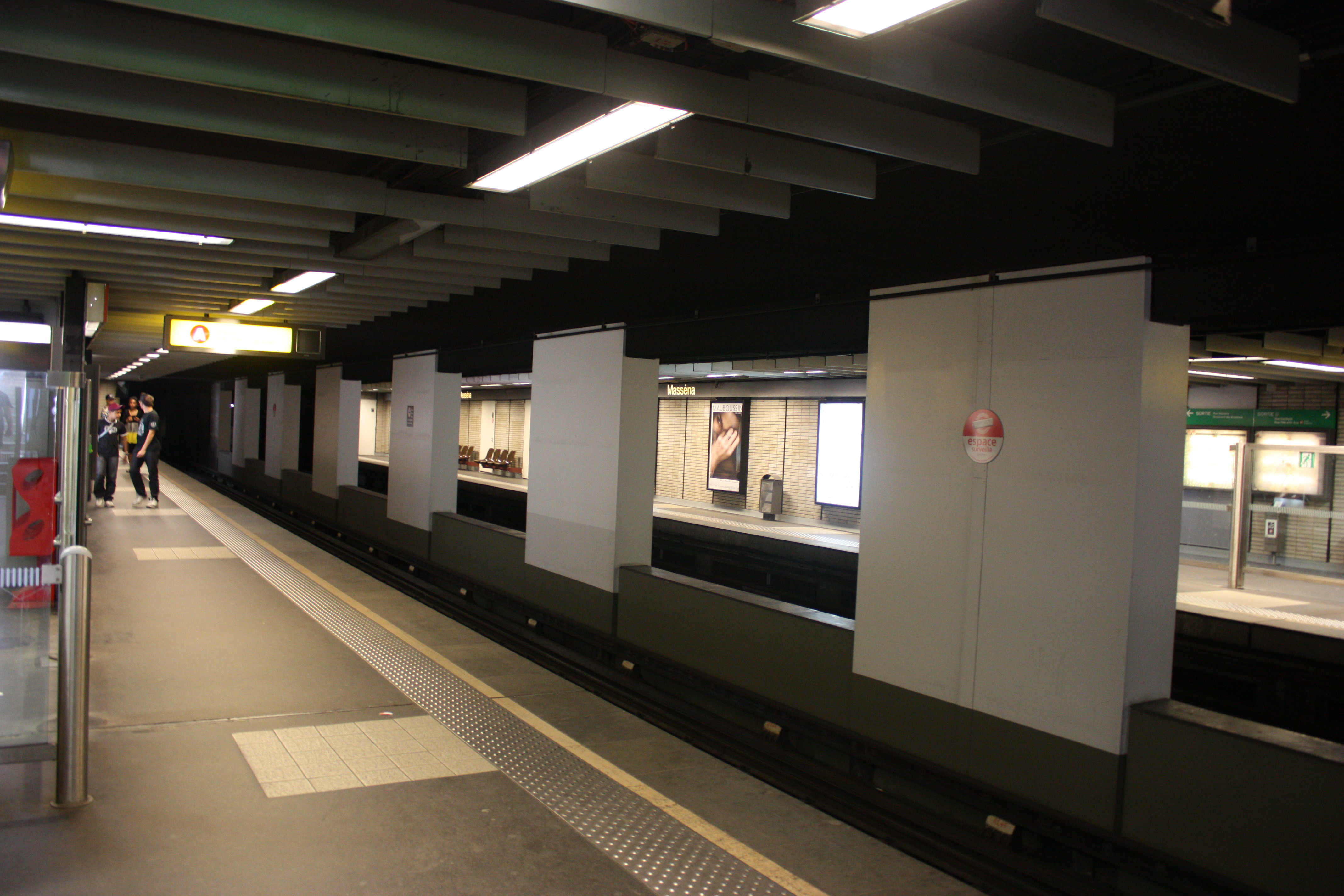 Lyon Metro Ligne A - Station Masséna